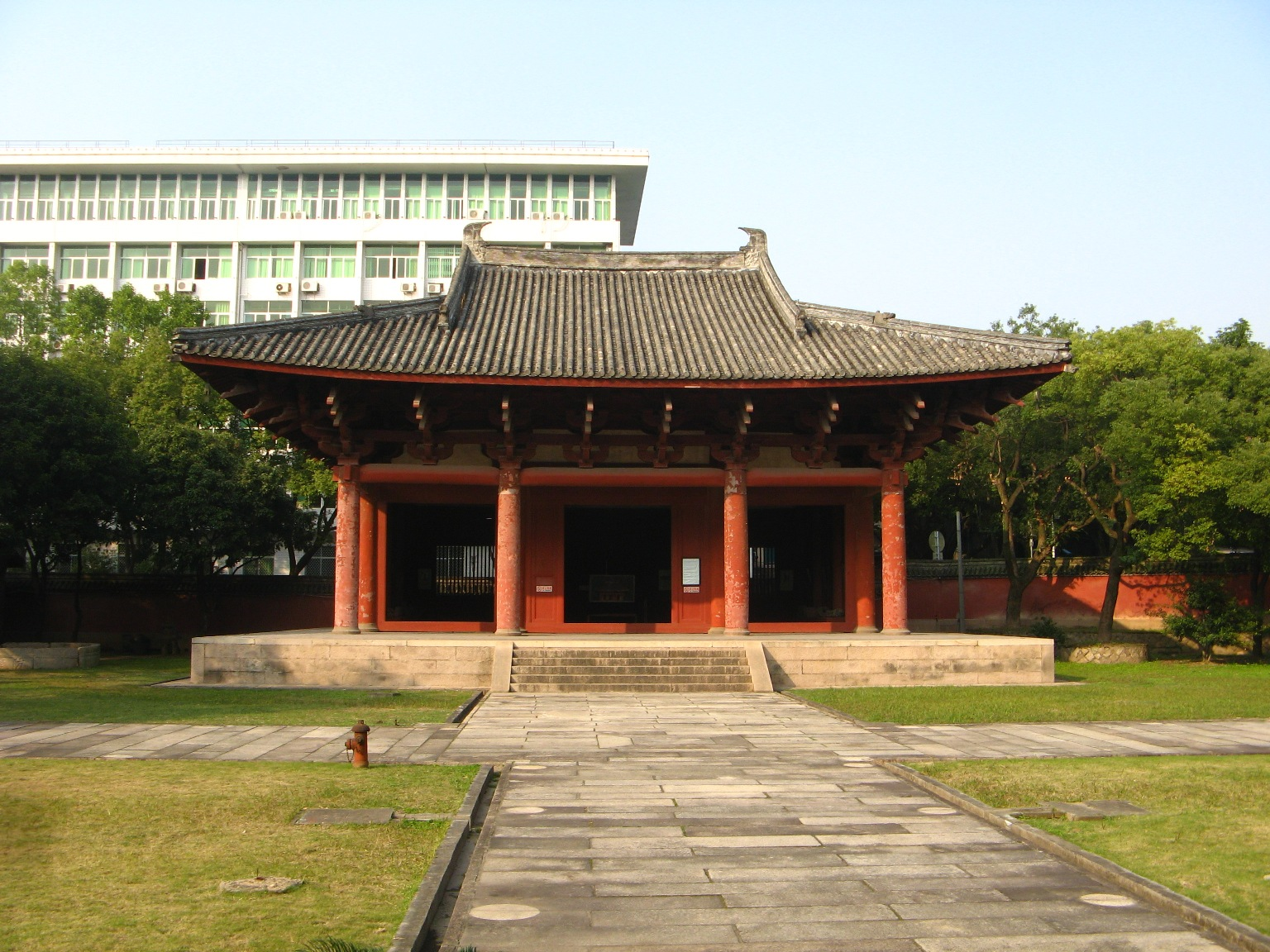 Hualin Temple, Fuzhou